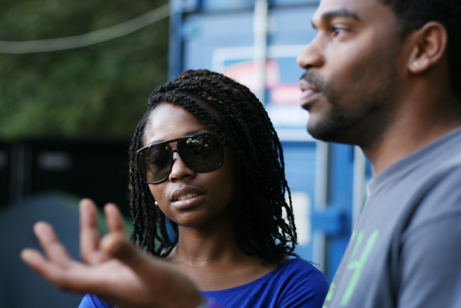 ChocQuib Town colombian musicians